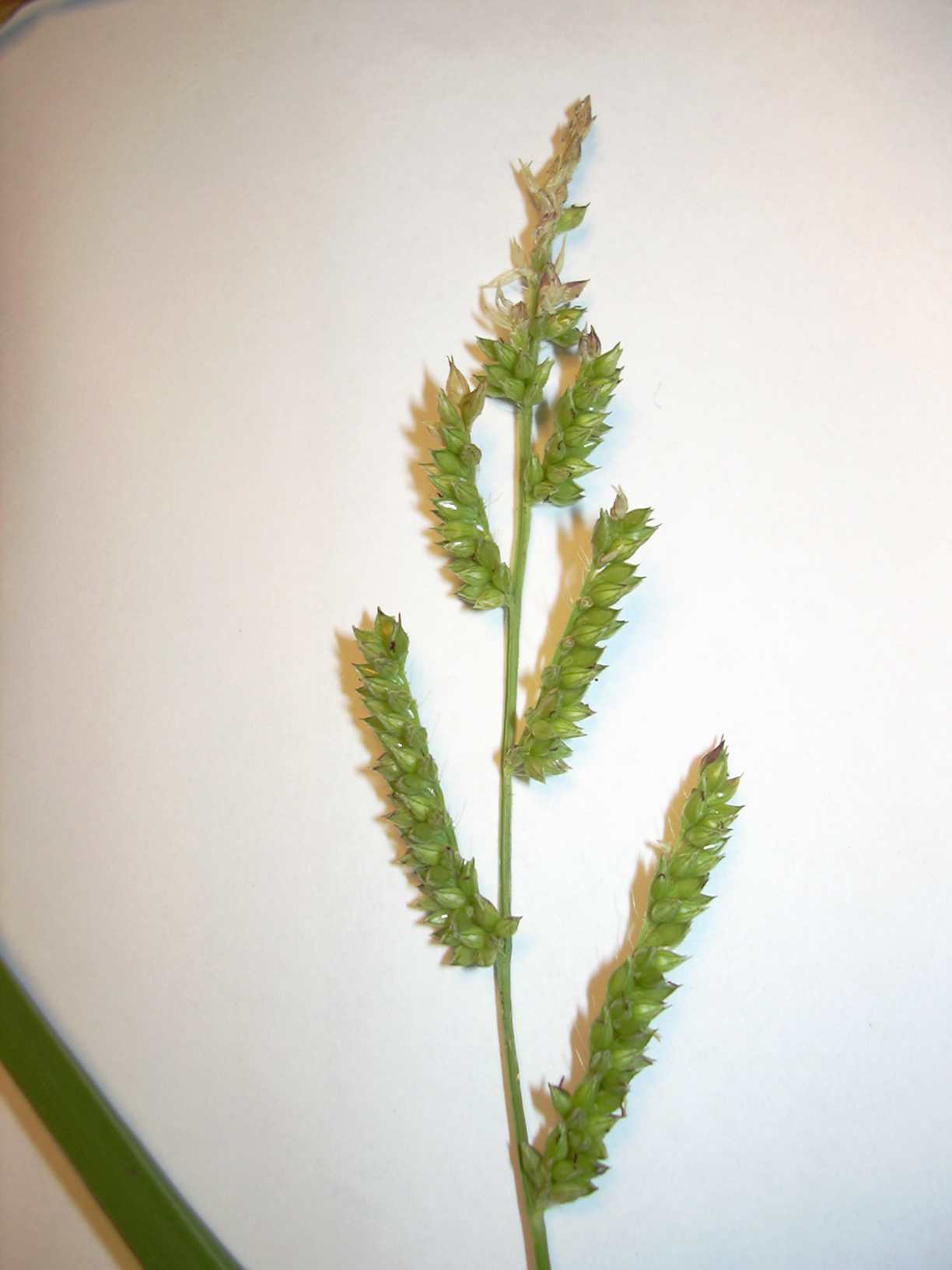 Echinochloa colona (seeds). Location: Maui, Hana Hwy